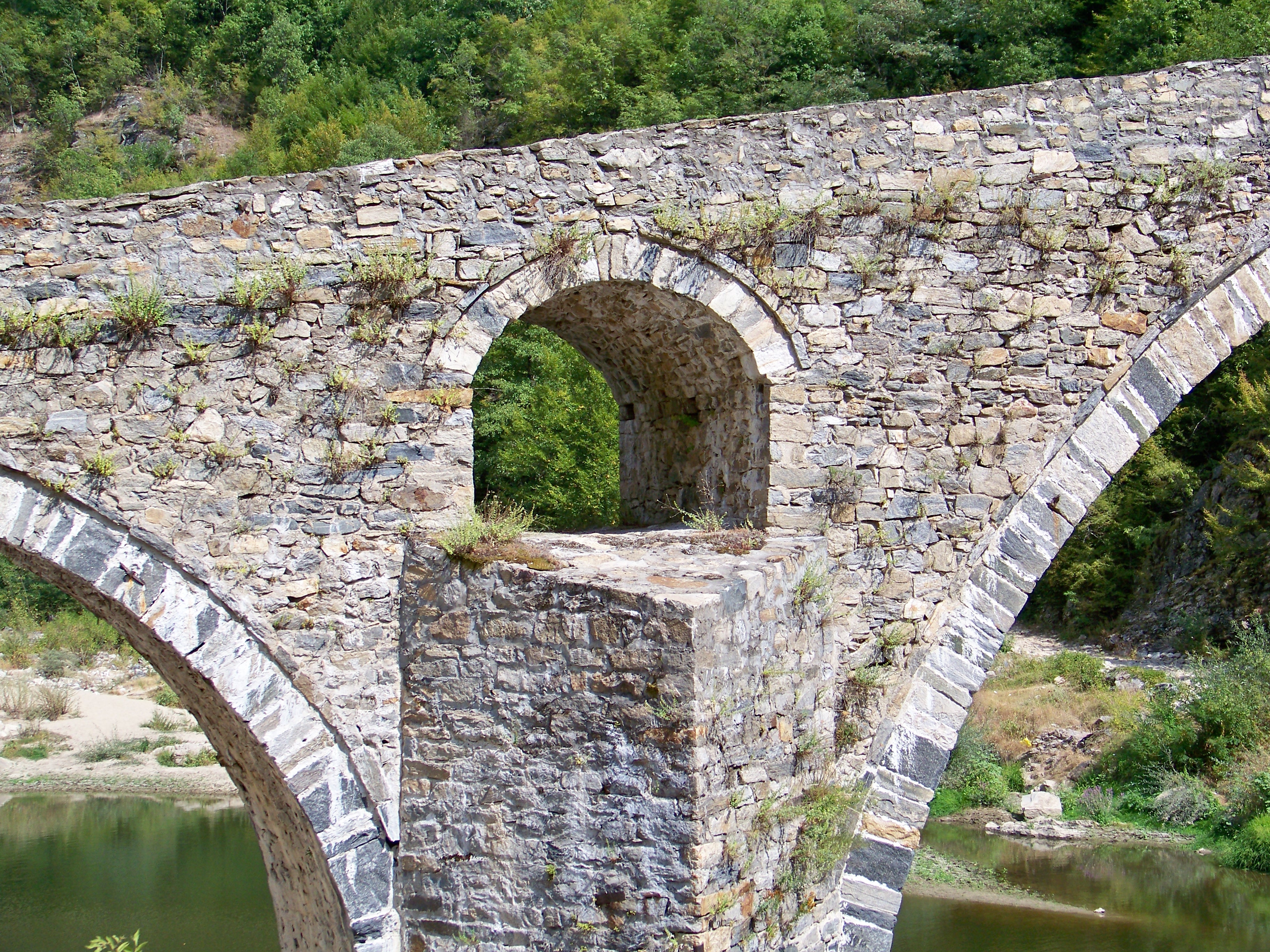 The Dyavolski most (Bulgarian: Дяволски мост, "Devil's Bridge"; Turkish: Şeytan Köprüsü) is an arch bridge over the Arda River situated in a narrow gorge. It is located 10 km (6.2 mi) from the Bulgarian town of Ardino in the Rhodope Mountains and is part of the ancient road connecting the lowlands of Thrace with the north Aegean Sea coast.